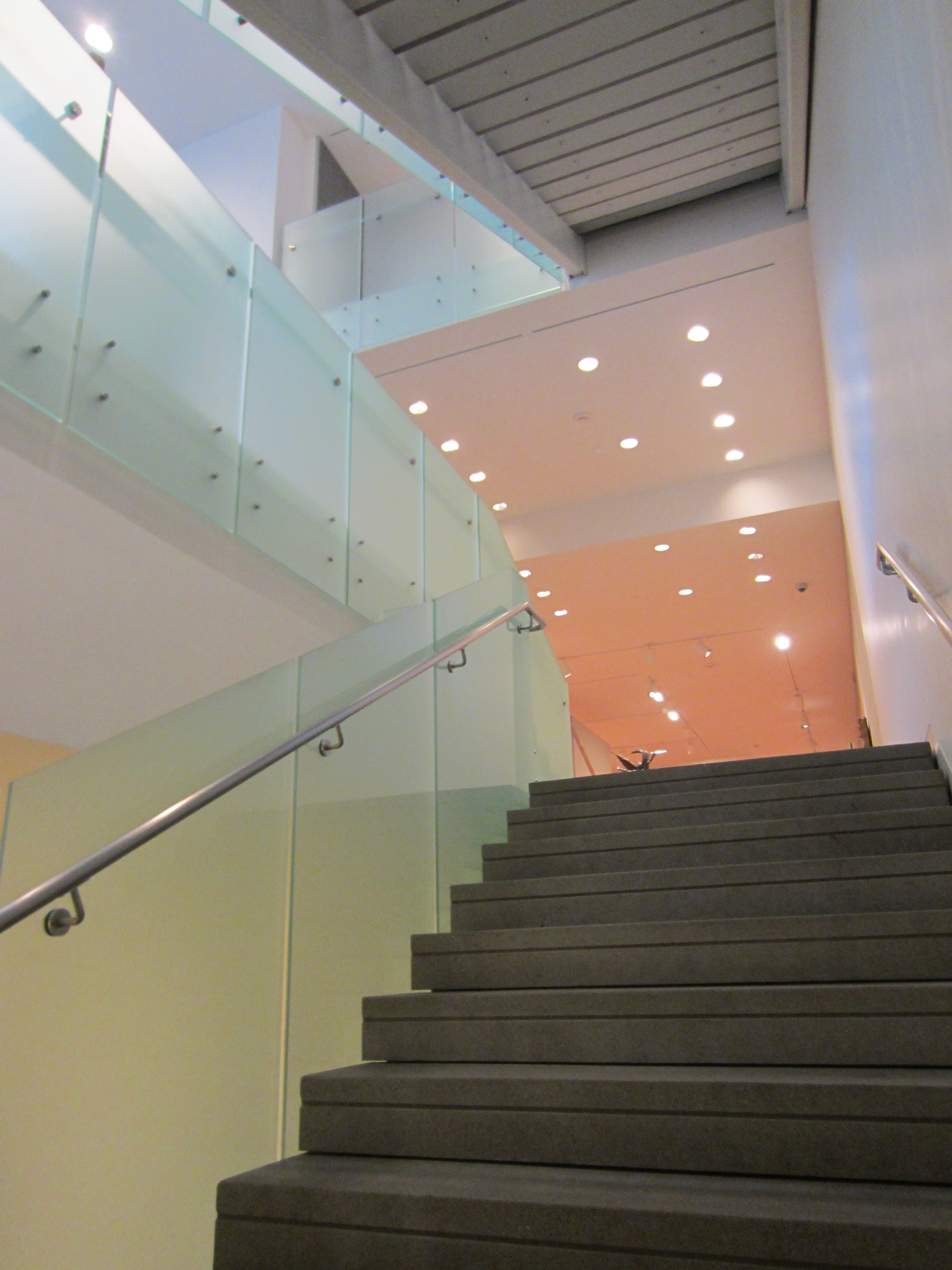 Interior of the Portland Art Museum in 2013